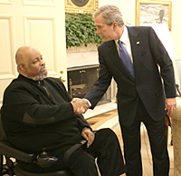 President George W. Bush congratulates James DePreist after awarding him the U.S. National Medal of Arts in 2005. Official White House photo.